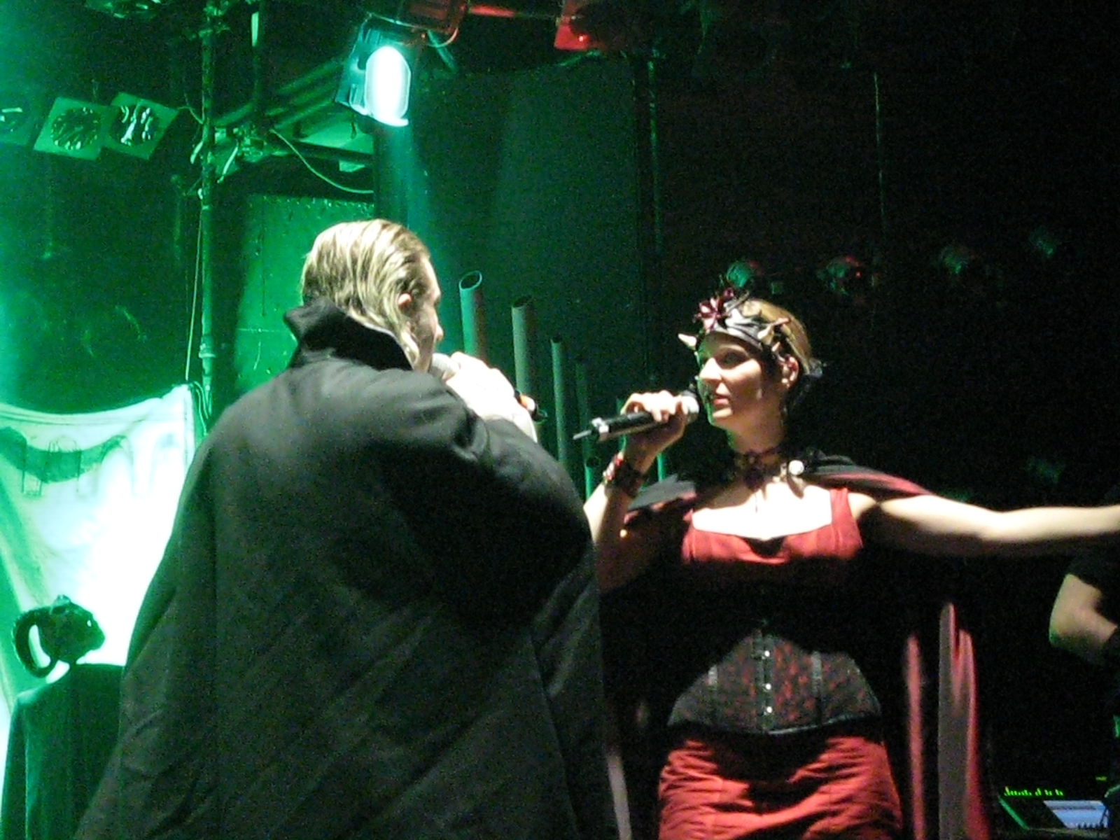 The Siren Of The Woods was sung as a love duet. Therion at The Fridge in Brixton, 2007-12-16.